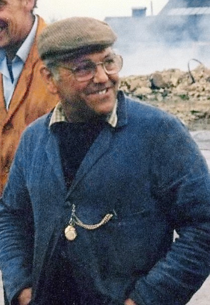 Cropped image of Fred Dibnah at Leighton Buzzard (June 1985), the smoking remains of a felled chimney are in the background